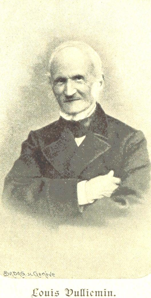 Louis Vulliemin Image taken from: Title: "Die Schweiz im neunzehnten Jahrhundert. Herausgegeben von schweizerischen Schriftstellern unter Leitung von P. Seippel" Author: SEIPPEL, Paul. Shelfmark: "British Library HMNTS 9305.h.2." Volume: 02 Page: 281 Place of Publishing: Lausanne Date of Publishing: 1899 Issuance: monographic Identifier: 003330970 Explore: Find this item in the British Library catalogue, 'Explore'. Download the PDF for this book (volume: 02) Image found on book scan 281 (NB not necessarily a page number) Download the OCR-derived text for this volume: (plain text) or (json) Click here to see all the illustrations in this book and click here to browse other illustrations published in books in the same year.